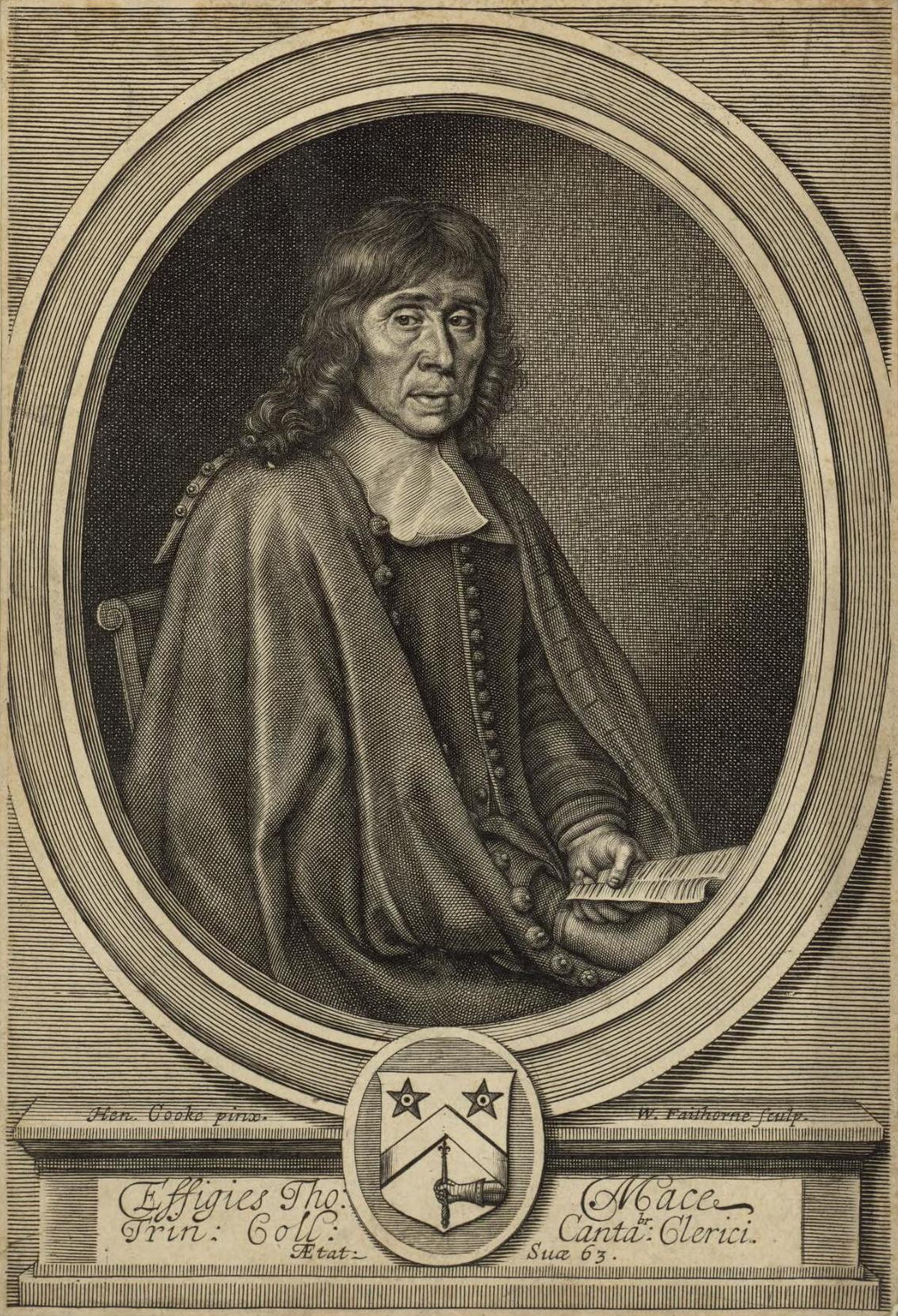 A portrait from the Welsh Portrait Collection at the National Library of Wales. Depicted person: Thomas Mace – English lutenist, viol player, singer, composer and writer